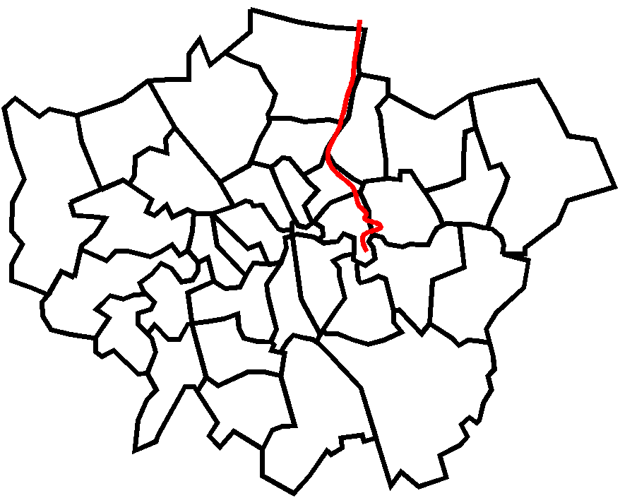 Lee Valley Walk from Hertfordshire to Greater London. Created by haydnaston